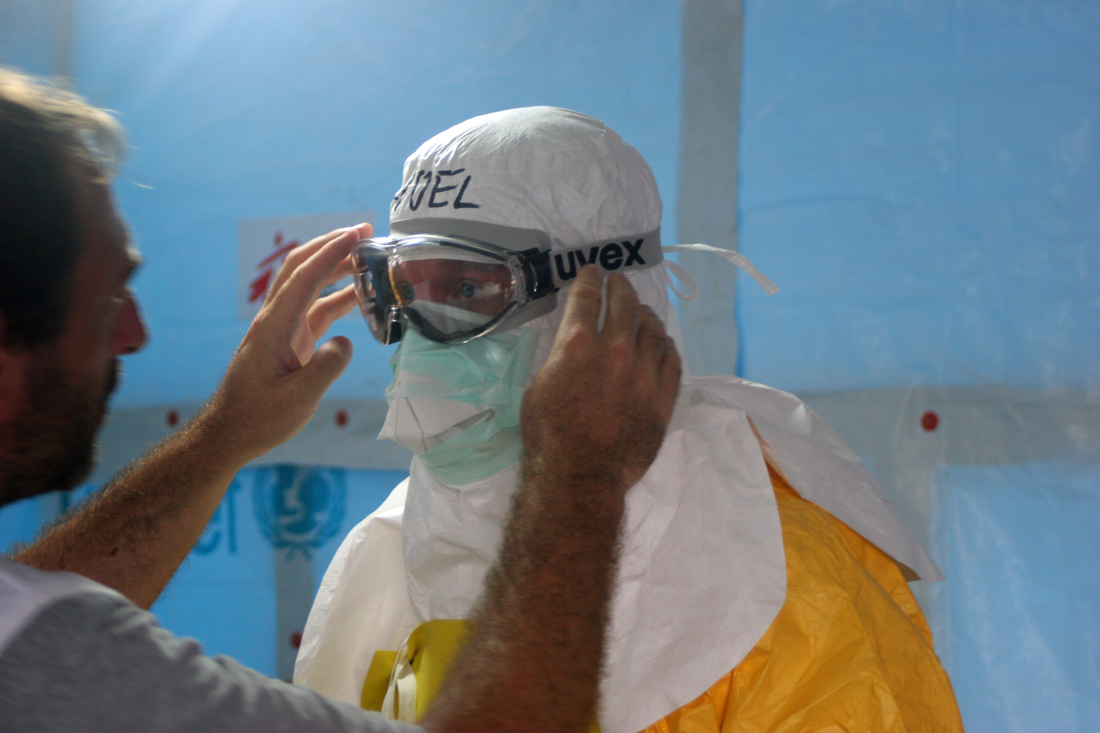 A Médecins Sans Frontières/Doctors Without Borders (MSF) staff member adjusts Dr. Joel Montgomery, Team Lead for CDC’s Ebola Response Team in Liberia, goggles before Dr. Montgomery enters the Ebola treatment unit (ETU), ELWA 3. MSF operates the ELWA 3 ETU, which opened on August 17. Photographer: Athalia Christie For more information on Ebola and what CDC is doing, please visit